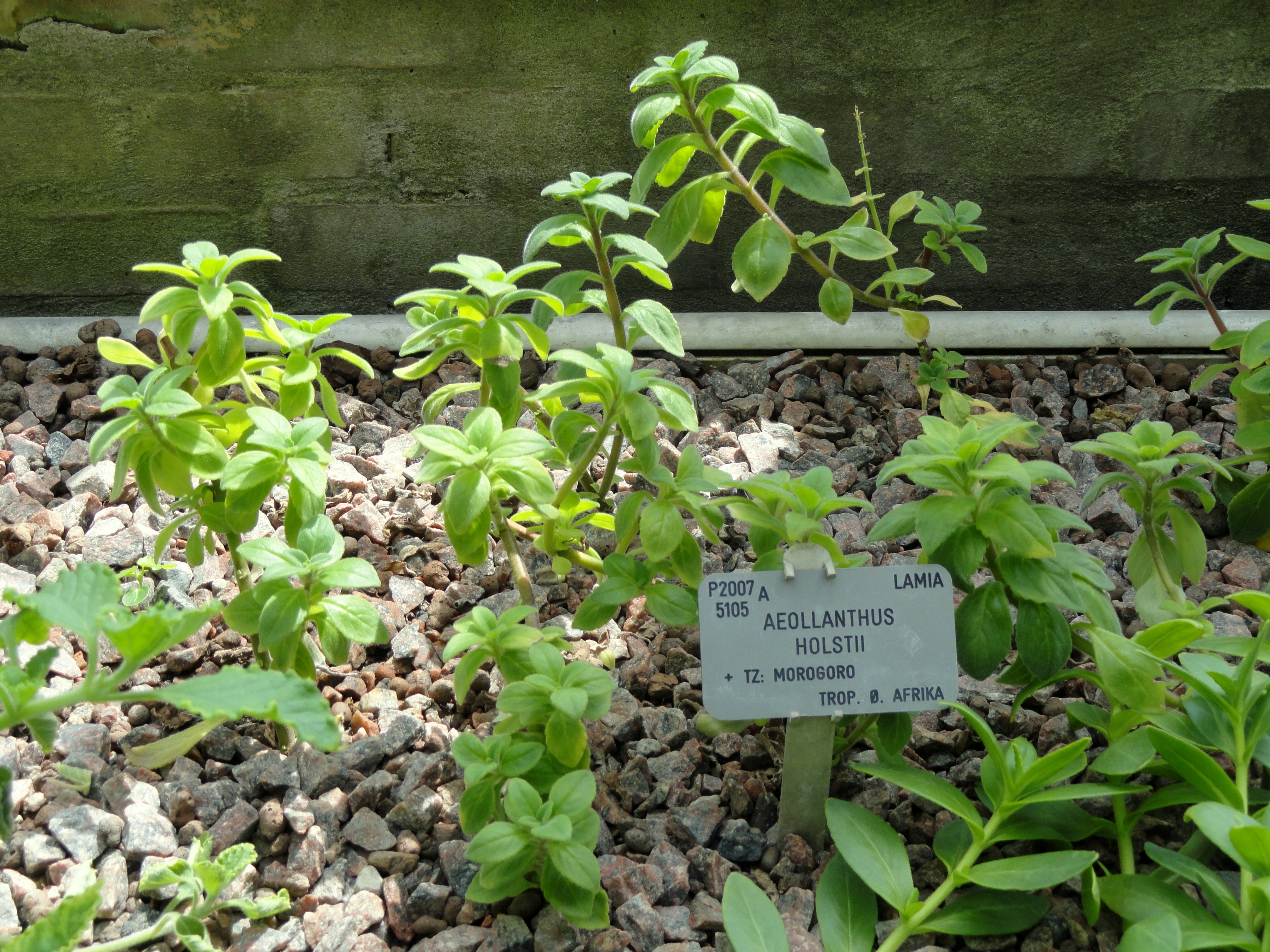 Botanical specimen in the University of Copenhagen Botanical Garden, Copenhagen, Denmark.